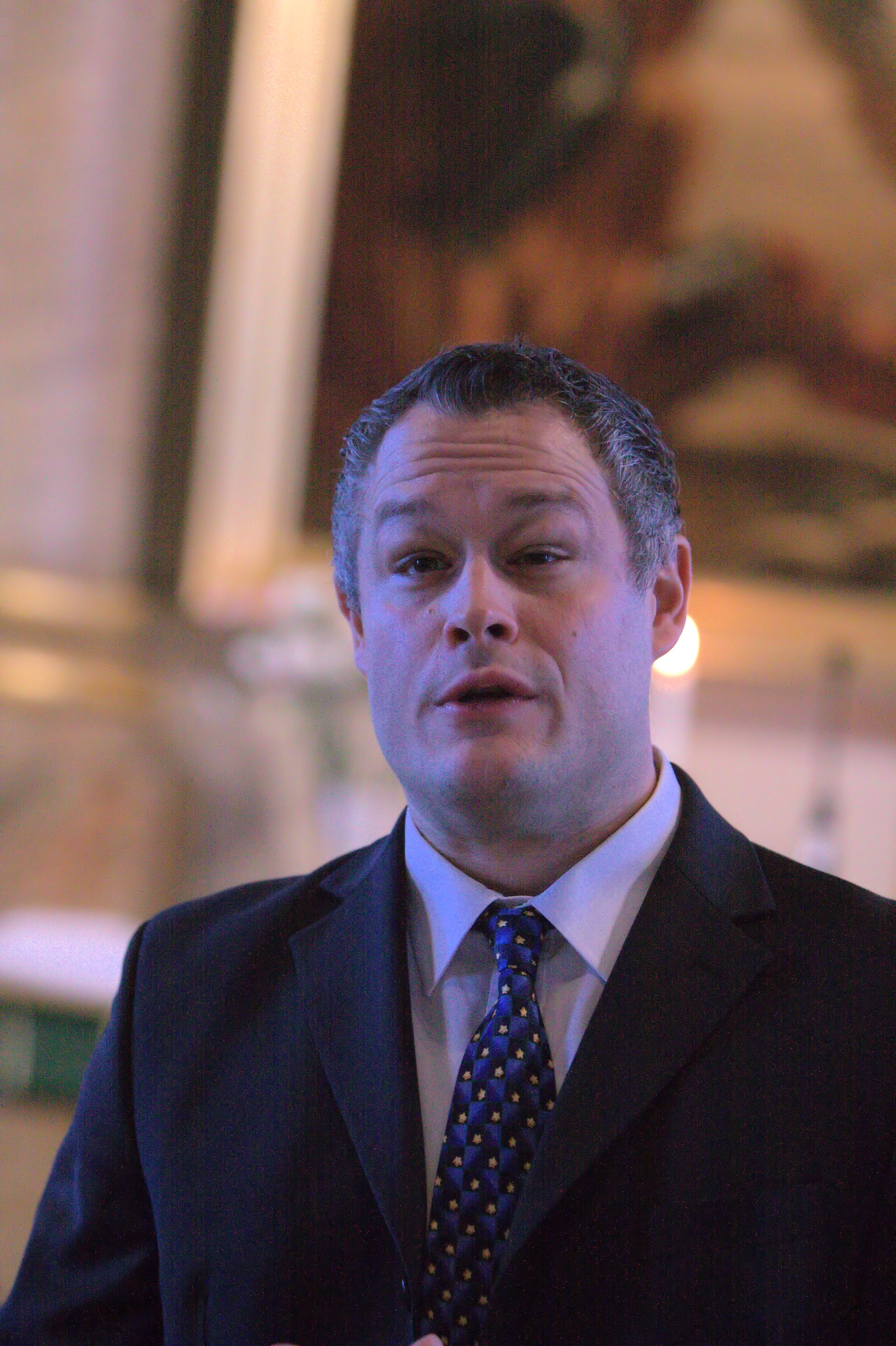 Gabriel Suovanen finnish operasinger